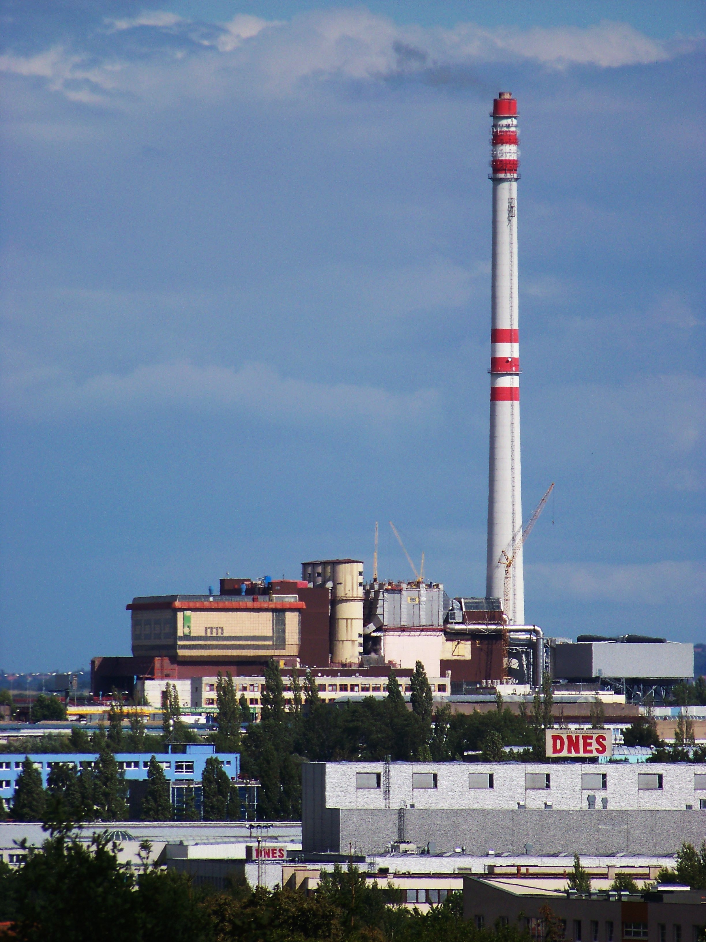 Prague-Malešice, the Czech Republic. Malešická, Marciho and Akademická streets.